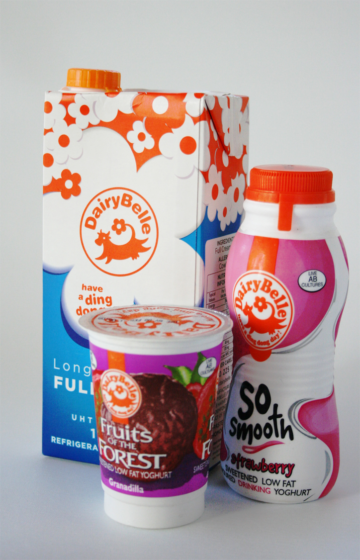 A picture of 3 dairy products produced by Dairy Belle, a subsidiary of Tiger Brands of South Africa.